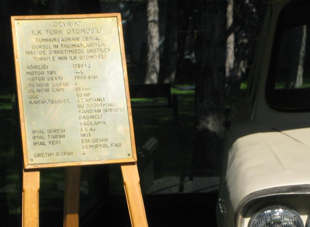 Specifications of First Turkish car, Devrim. Produced four samples, one is at Tülomsaş (Producer, state company).